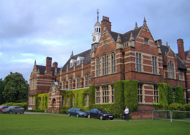 Hymers College, Hull, East Riding of Yorkshire, England.